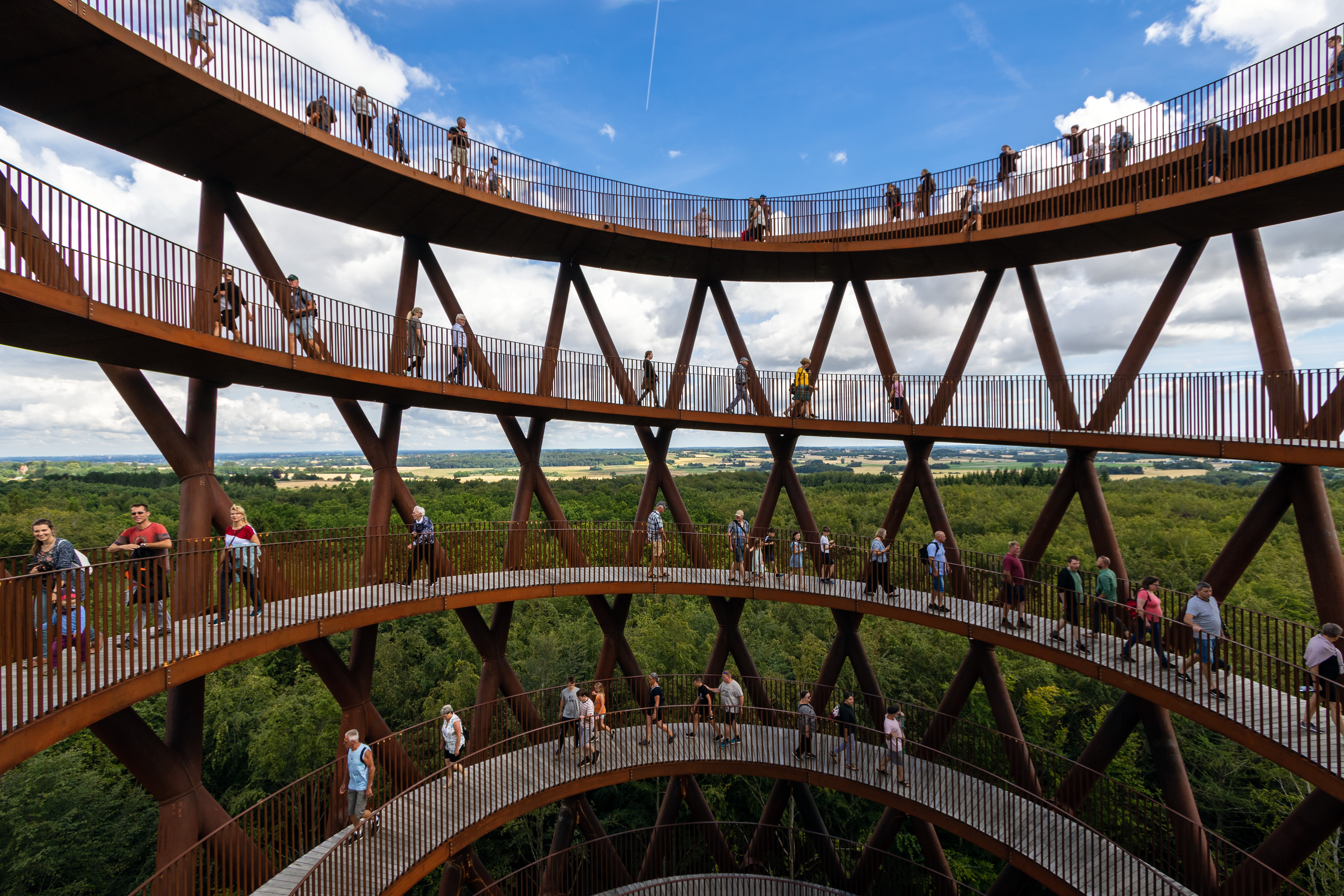 Forest Tower of Camp Adventure in Rønnede, Faxe, Southern Zealand, Denmark.